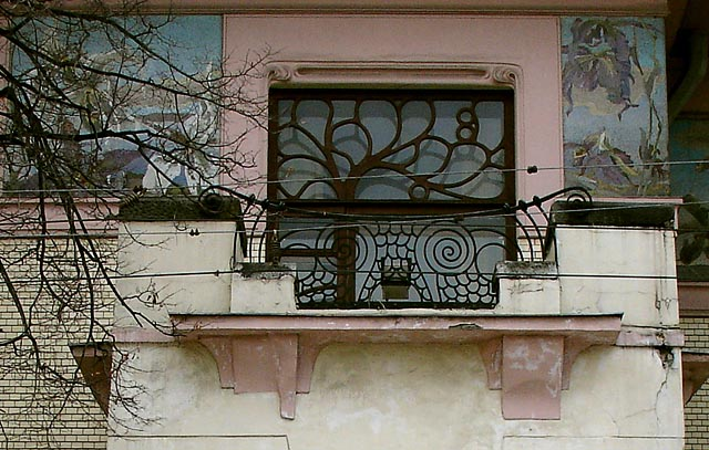 Ryabushinsky House (Maxim Gorky House) by Fyodor Schechtel, Malaya Nikitskaya, Moscow - fragment